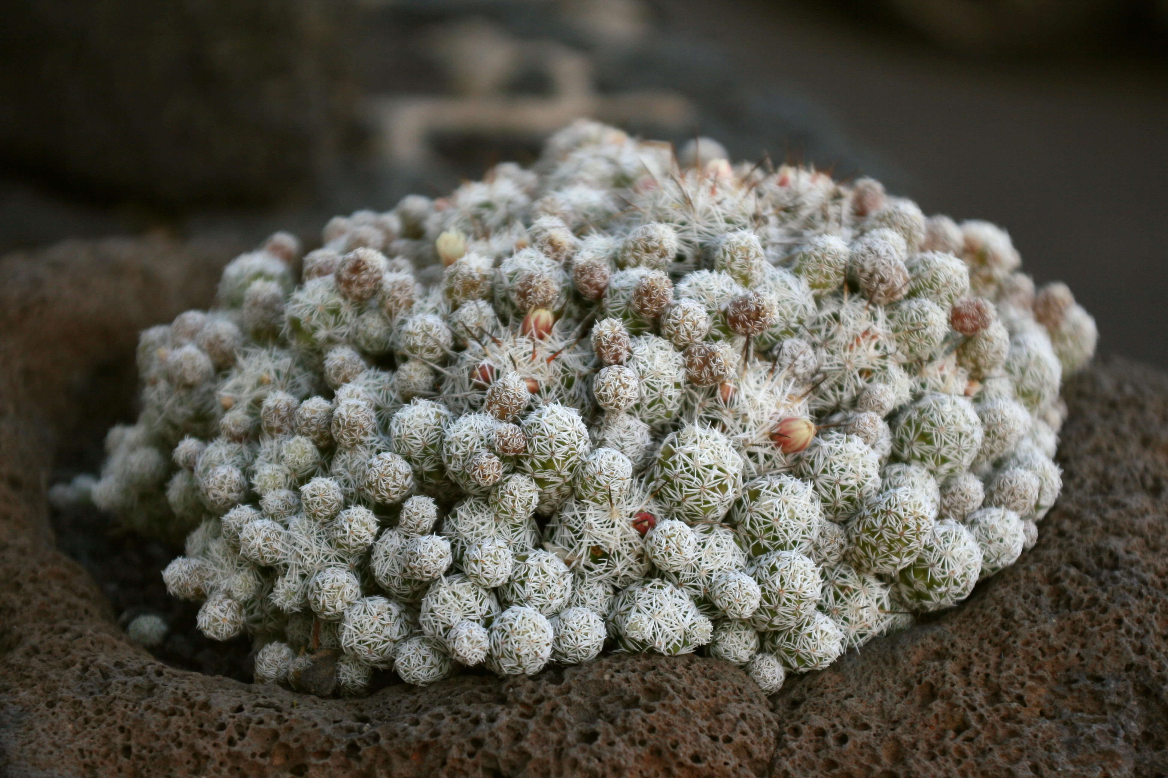 Mammillaria vetula grown at Plaza San Marcial in Femés, Yaiza, Lanzarote, Canary Islands